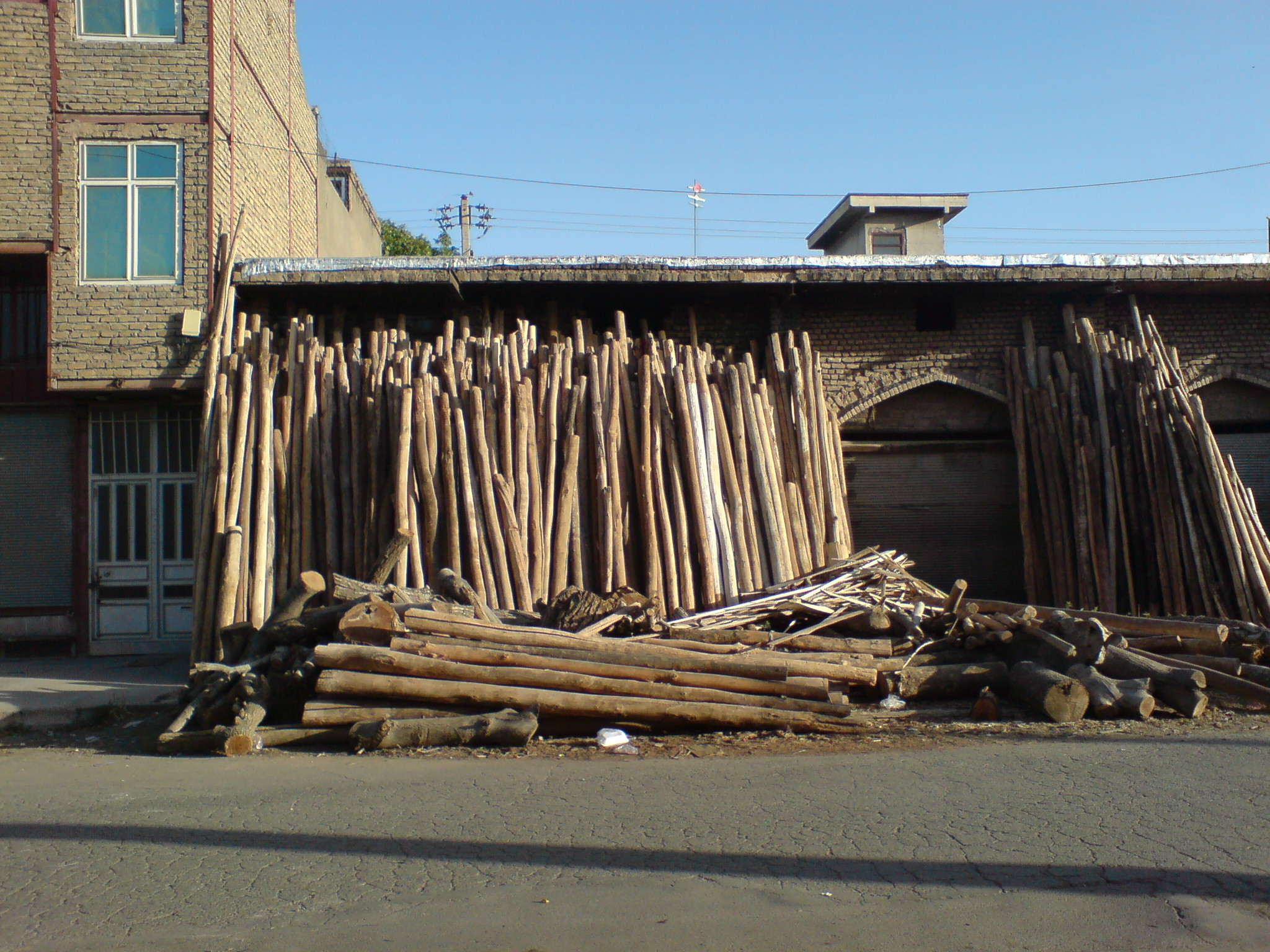 Tree trunks in Darwazeh Iraq Street-nishapur